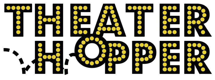 The logo for the Theater Hopper webcomic and associated merchandise, etc.